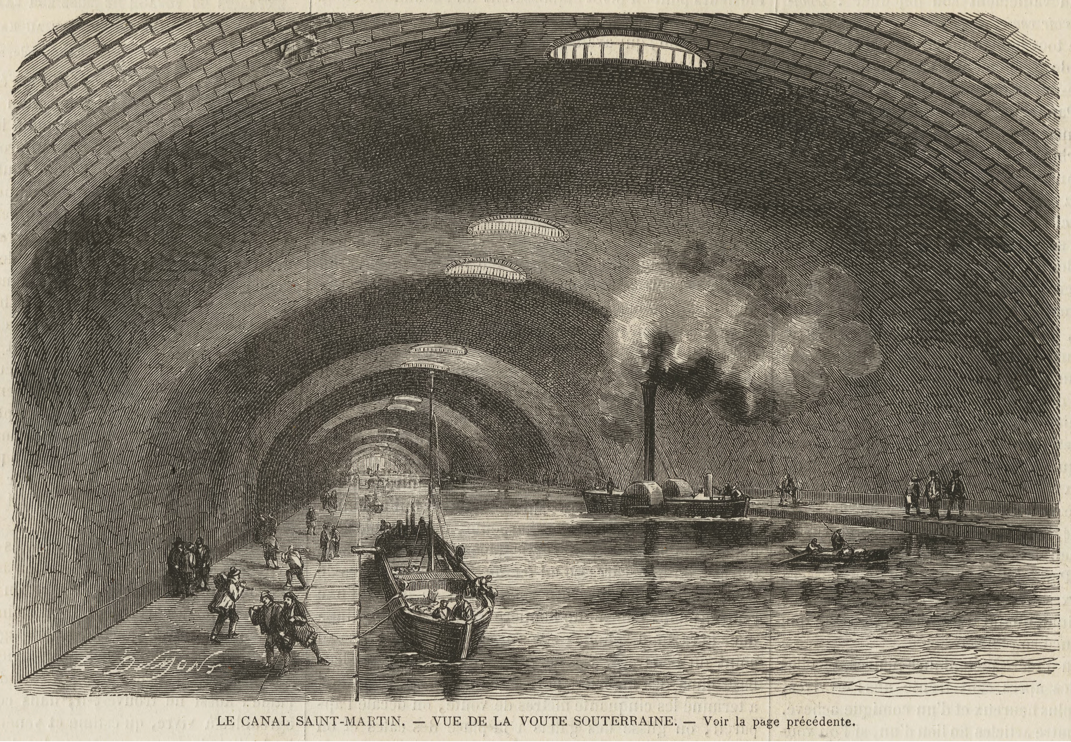 This is an image of the underground Canal Saint-Martin, which was used as an aquatic means of commercial transportation to avoid certain inconveniences of navigating on the Seine river.